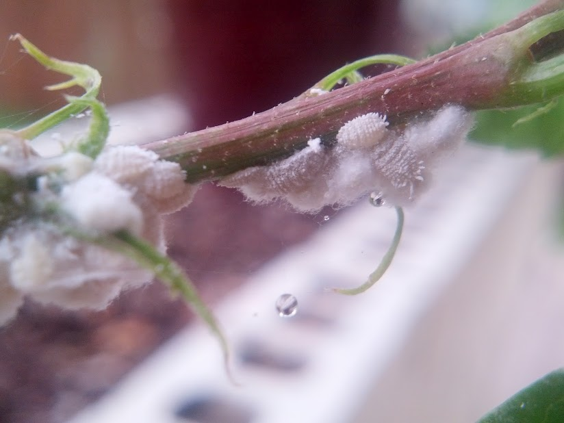 Mealybugs feeding on hibiscus plant